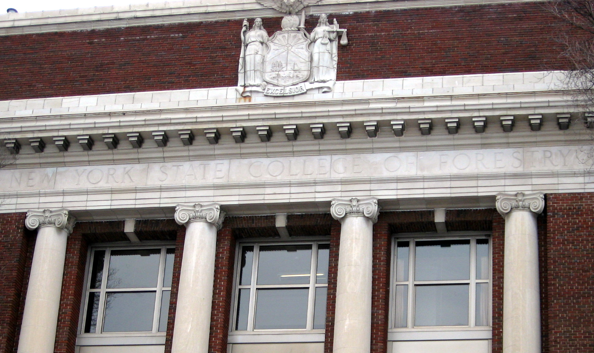 Front upper center portion of Bray Hall, first building at the New York State College of Forestry at Syracuse University, now the State University of New York College of Environmental Science and Forestry (SUNY-ESF), facing west